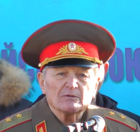 Lt. Gen. Mikhail Titov at the Veterans Meeting in Moscow on November 7, 2010, adressing a speech against the policy of Russian Secretary of Defense Anatoly Serdyukov.